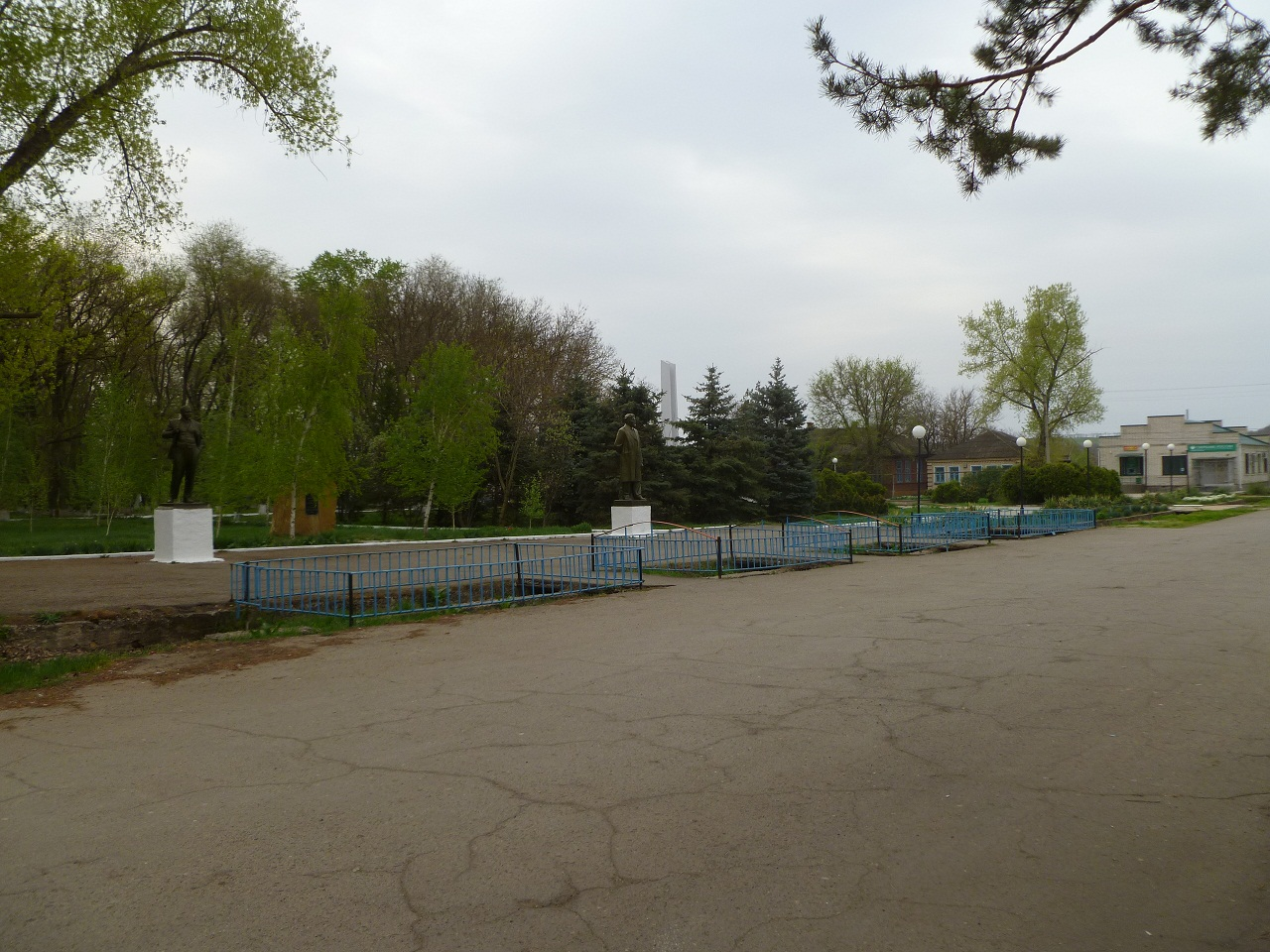 Spichevka